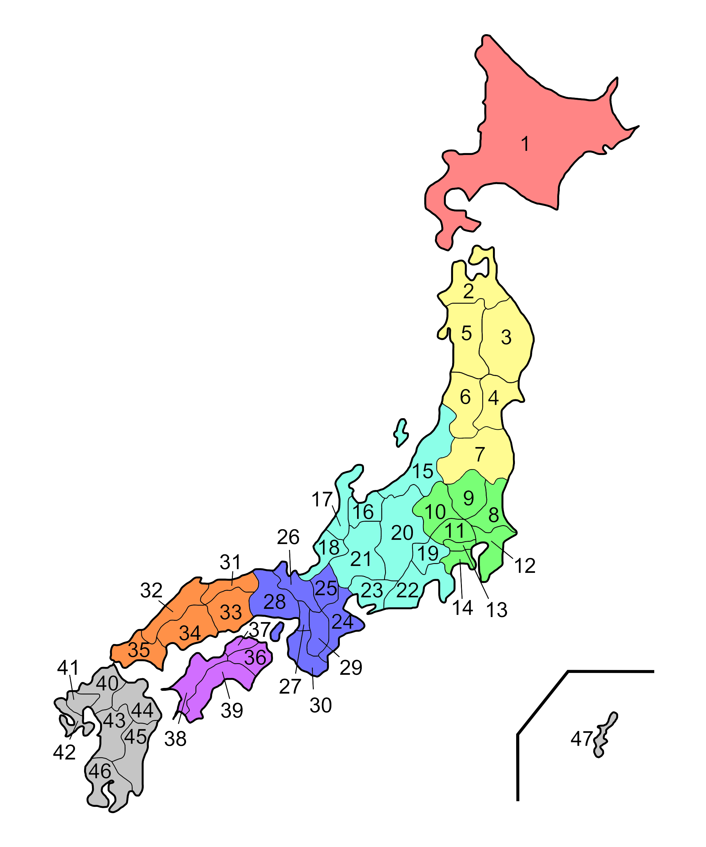 Created for Portal:Japan